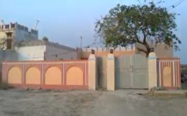 Village scene Dera Bhattian